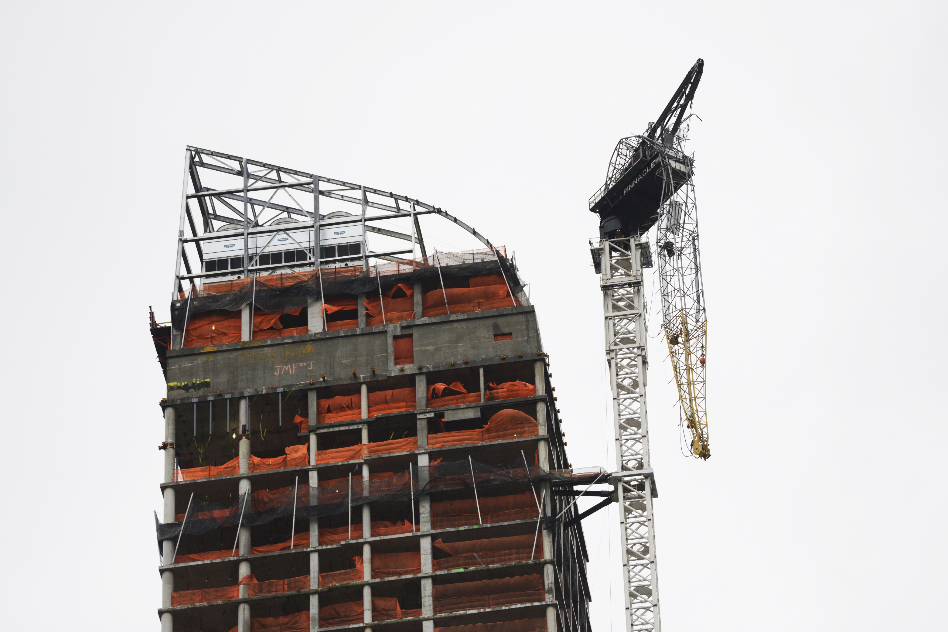 Close-up of One57's construction crane, which collapsed during Hurricane Sandy.